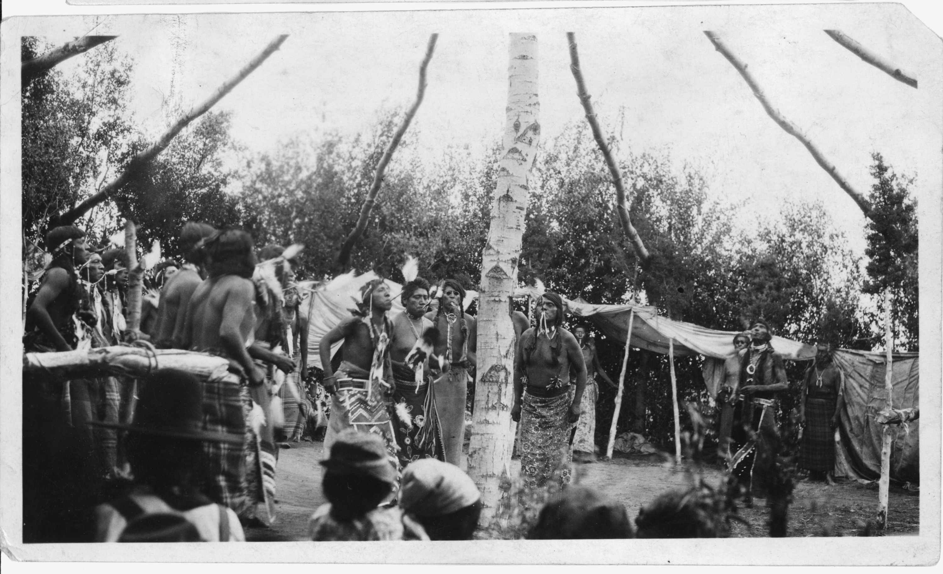 Scope and content: Records document the activites of George LaVatta as Organizational Field Agent in the 1930's. Included are records and photos conerning construction at various agencies, the reorganization of the Bureau of Indian Affairs, and photos and reports of various Indian schools.